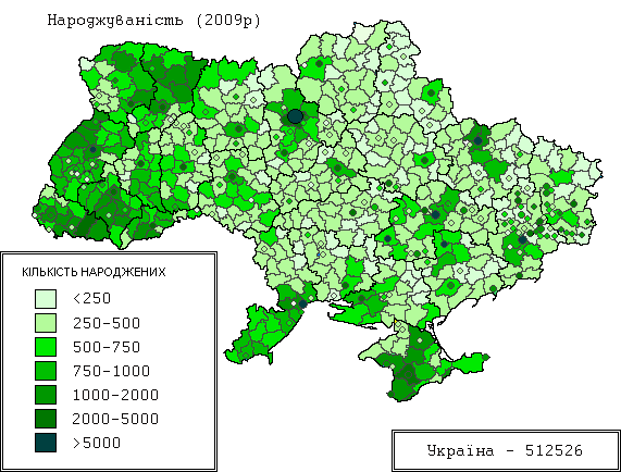 Number of births in Ukraine in 2009